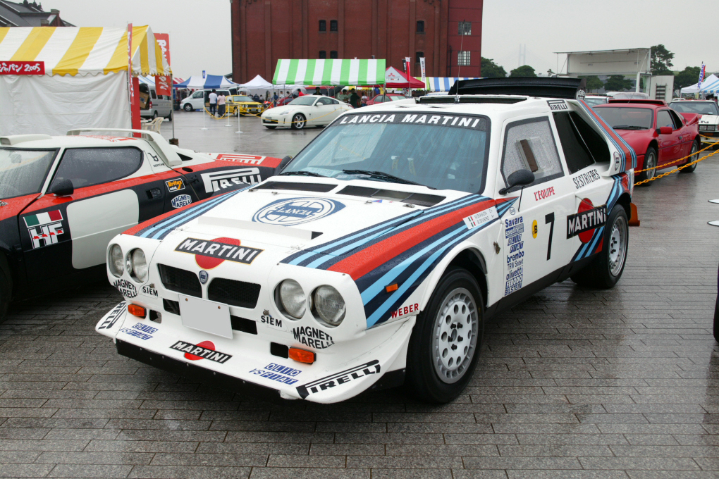 Lancia Delta S4 #209 at The Spirit of Rally 2005.